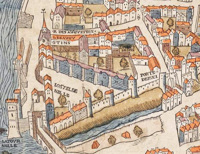 Buci gate on the plan of Truschet and Hoyau (1550).